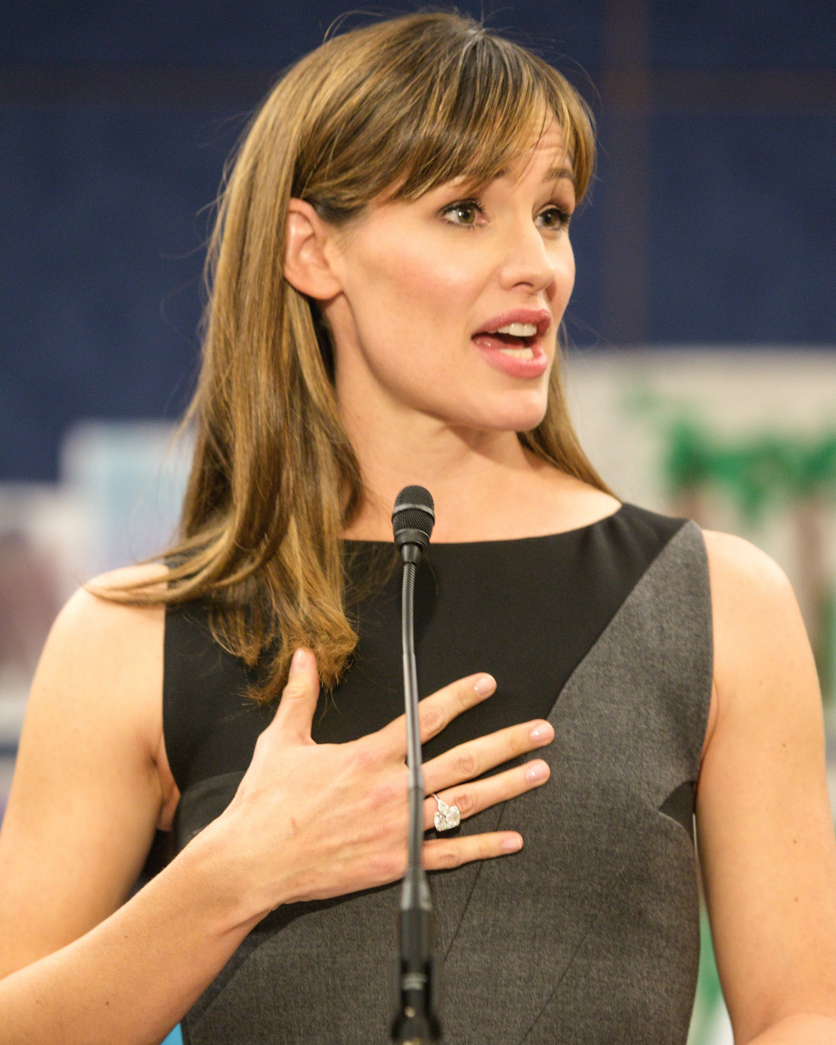 Jennifer Garner on November 13, 2013